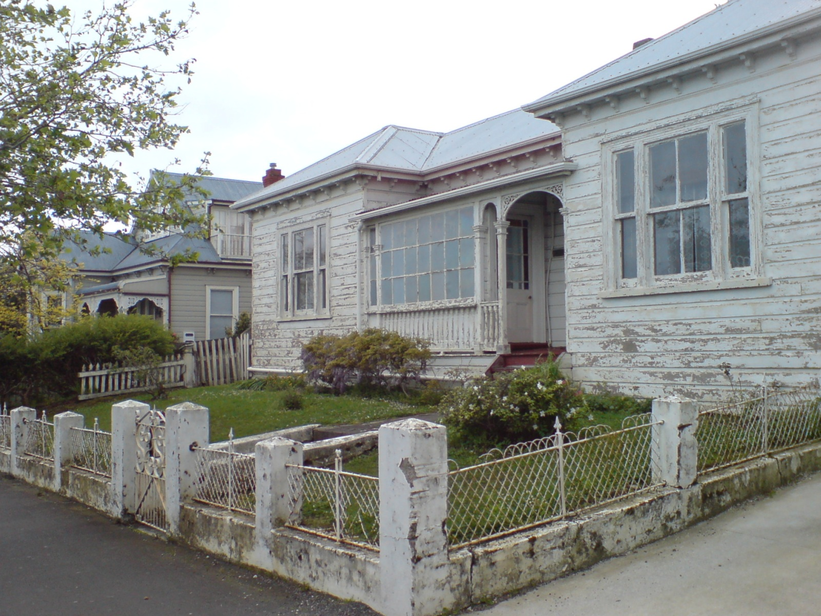 An old, run-down wooden villa on Ponsonby Rd, Ponsonby, Auckland, New Zealand.